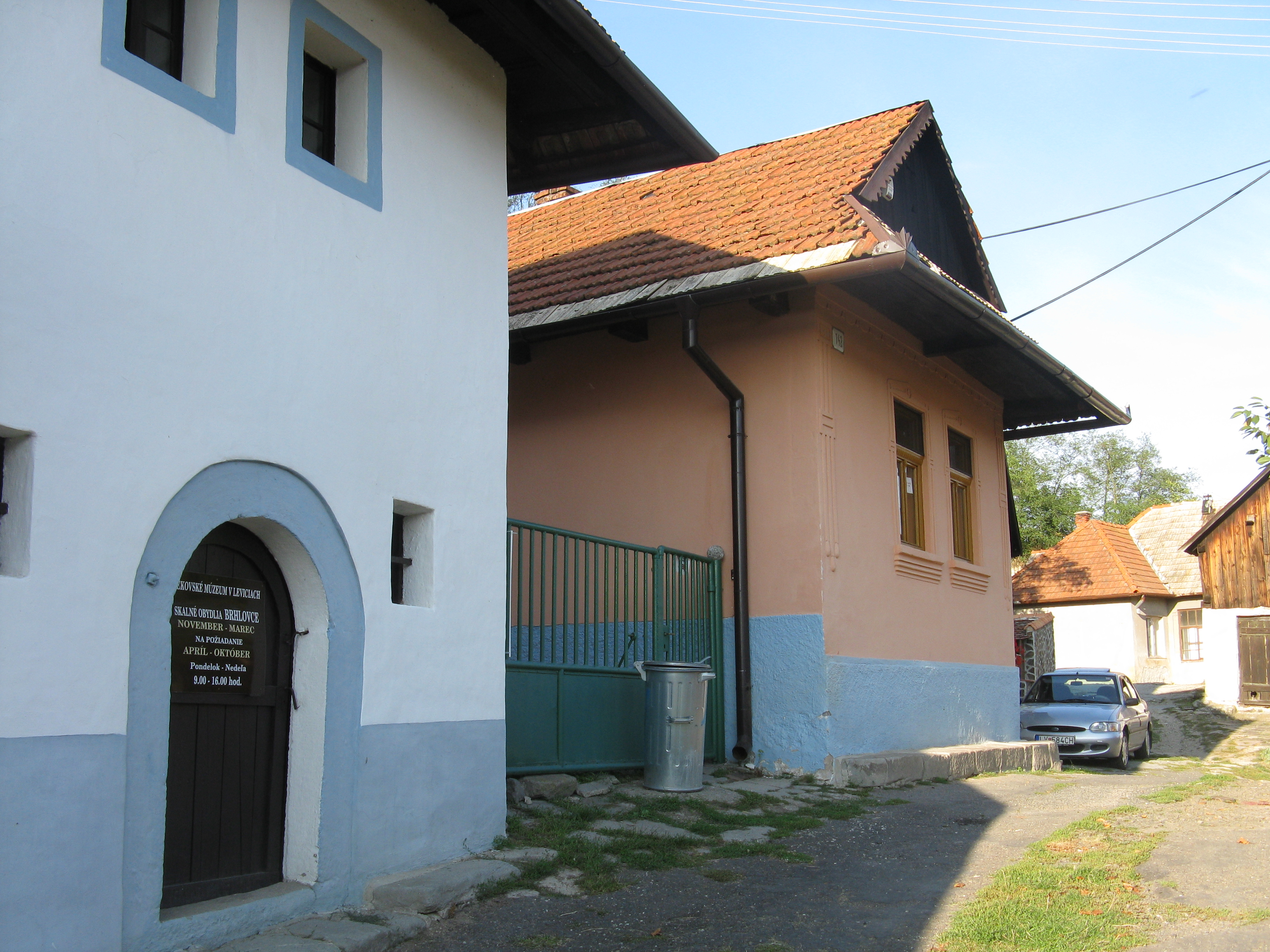 Village Brhlovce